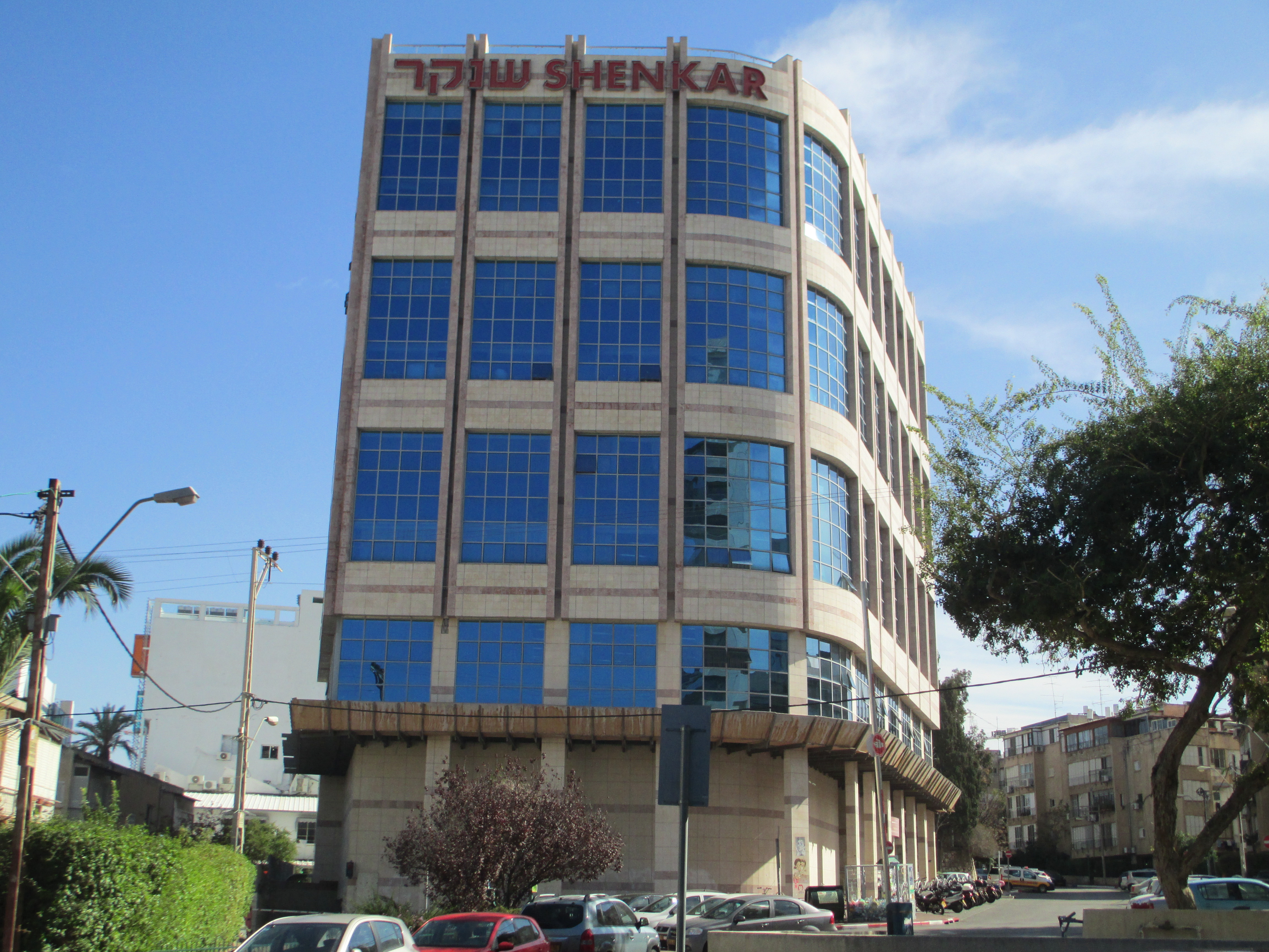 Shenkar collage in Ramat Gan